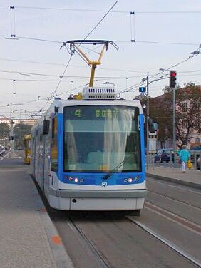 Škoda 05 T low floor tram prototype in Plzen.